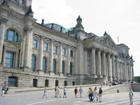 Photo of Reichstag building at Berlin.